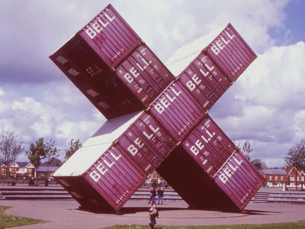 Luc Deleu, 'Construction X'. On display in Arthur's Quay Park, Limerick, Republic of Ireland for international exhibition EV+A 1994. Large-scale outdoor installation made from shipping containers in the shape of the letter X.